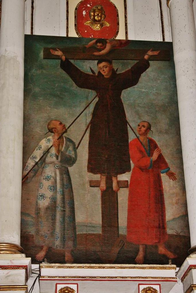 Saint Anthony of Padua Convent, Puebla city, Puebla state, Mexico